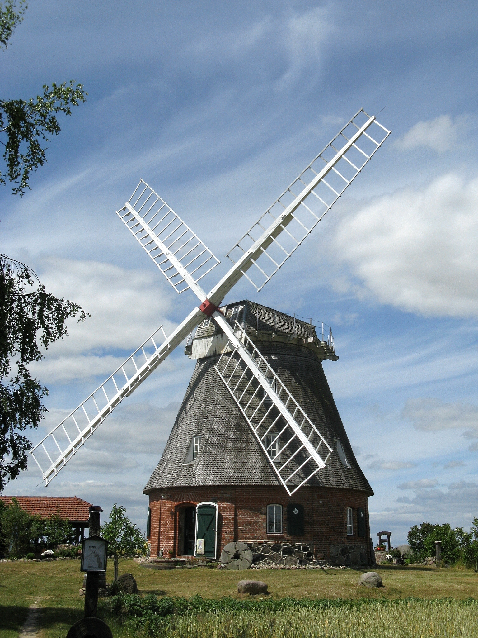 Windmill in Grebbin, Mecklenburg-Vorpommern, Germany